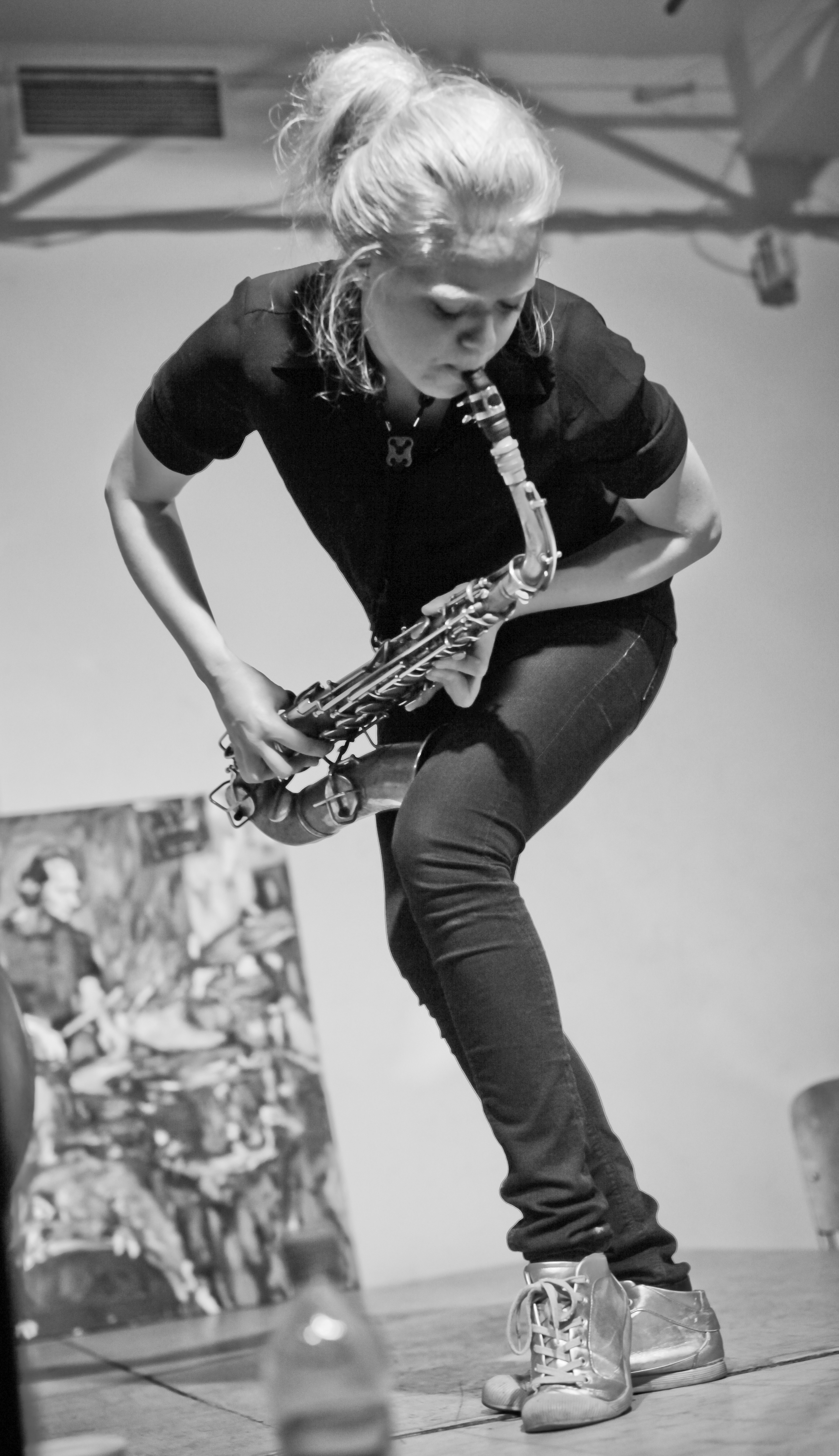 free-jazz and avangarde saxophonist